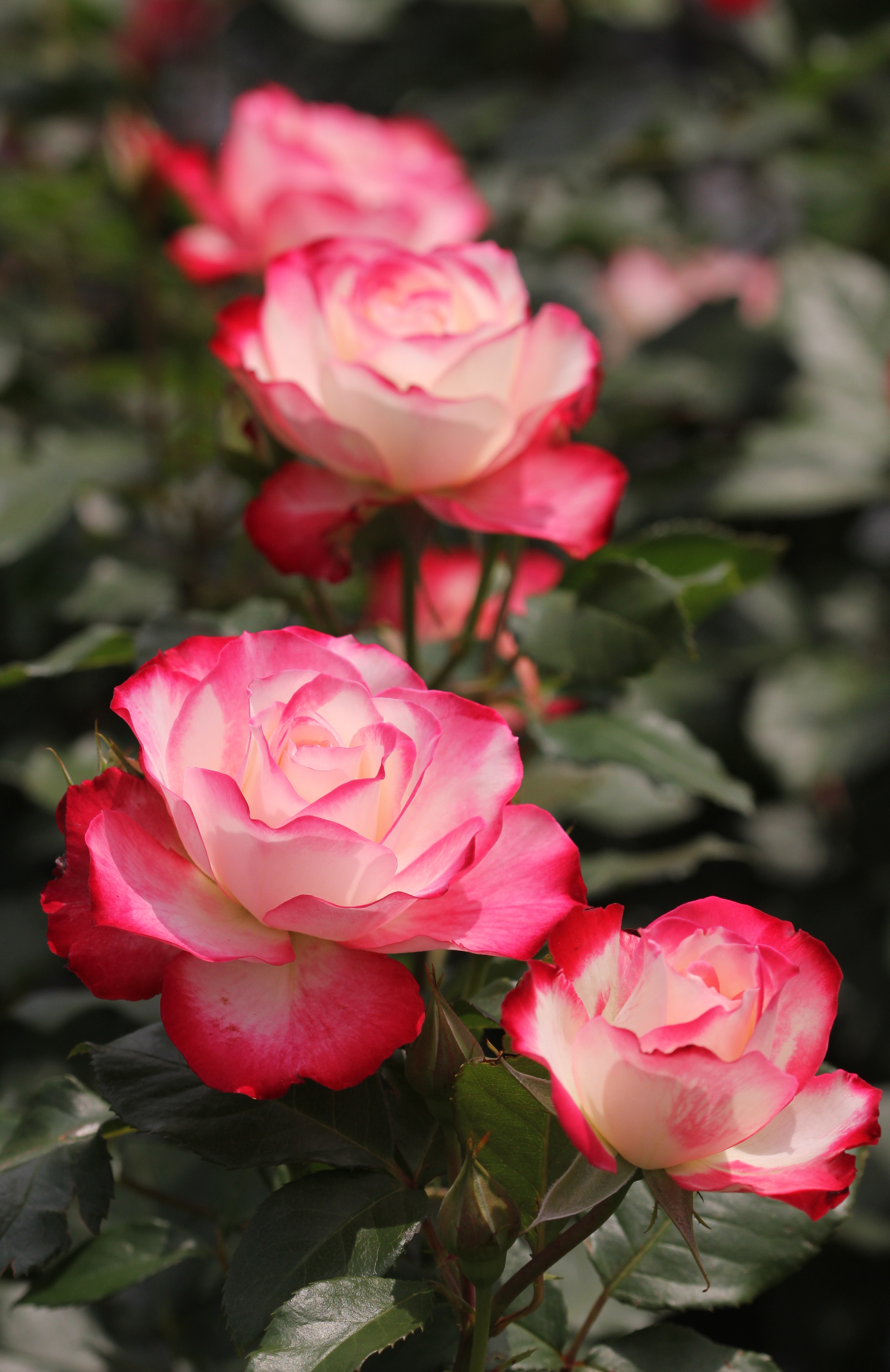 Rosa 'Jubilé du Prince de Monaco'